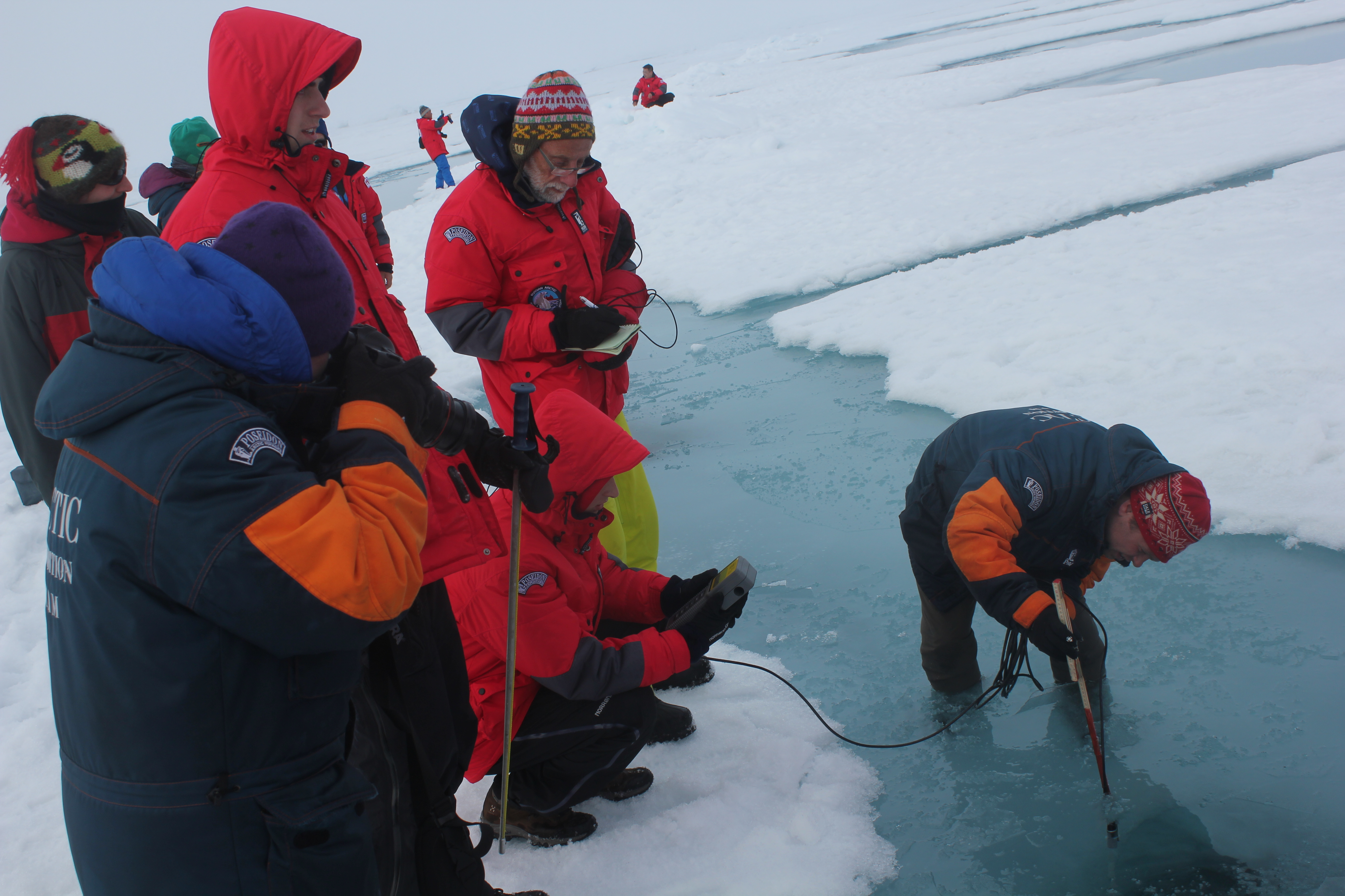 А сitizen science project "Arctic ocean sea ice research". The North pole on 6 August 2015.